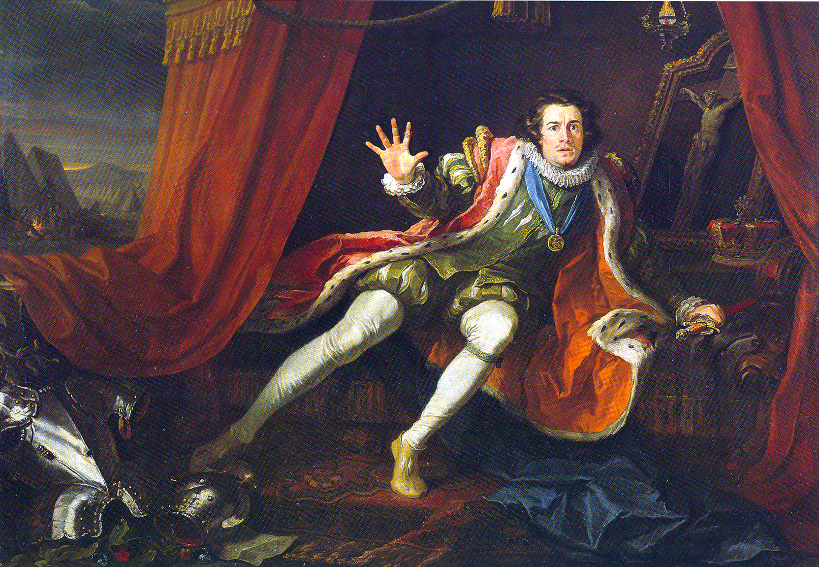 David Garrick as Richard III in Colley Cibber's adaptation of the William Shakespeare play. The king has just awakened from a nightmare. The painting was made by William Hogart in 1745, based on Garrick's appearance in 1743.